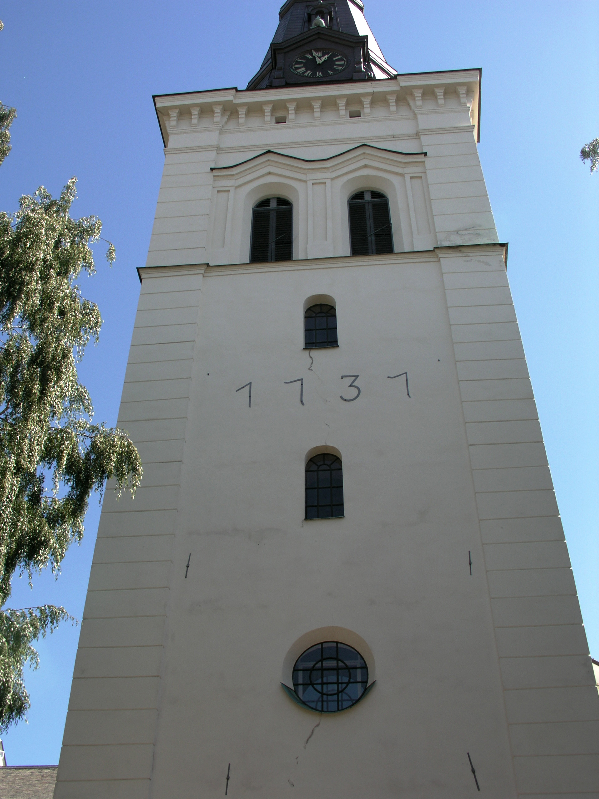 Karlstads domkyrka / Cathedral of Karlstad. Tower wall.